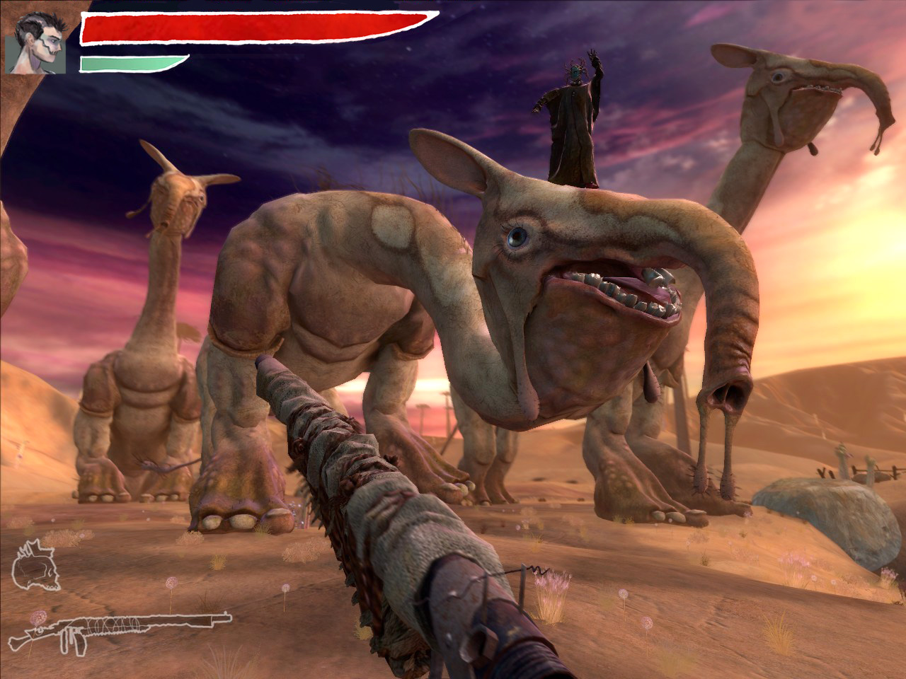 Zeno Clash screenshot. Released in 2009, the game was developed by ACE Team and is powered by Valve Software's Source engine.